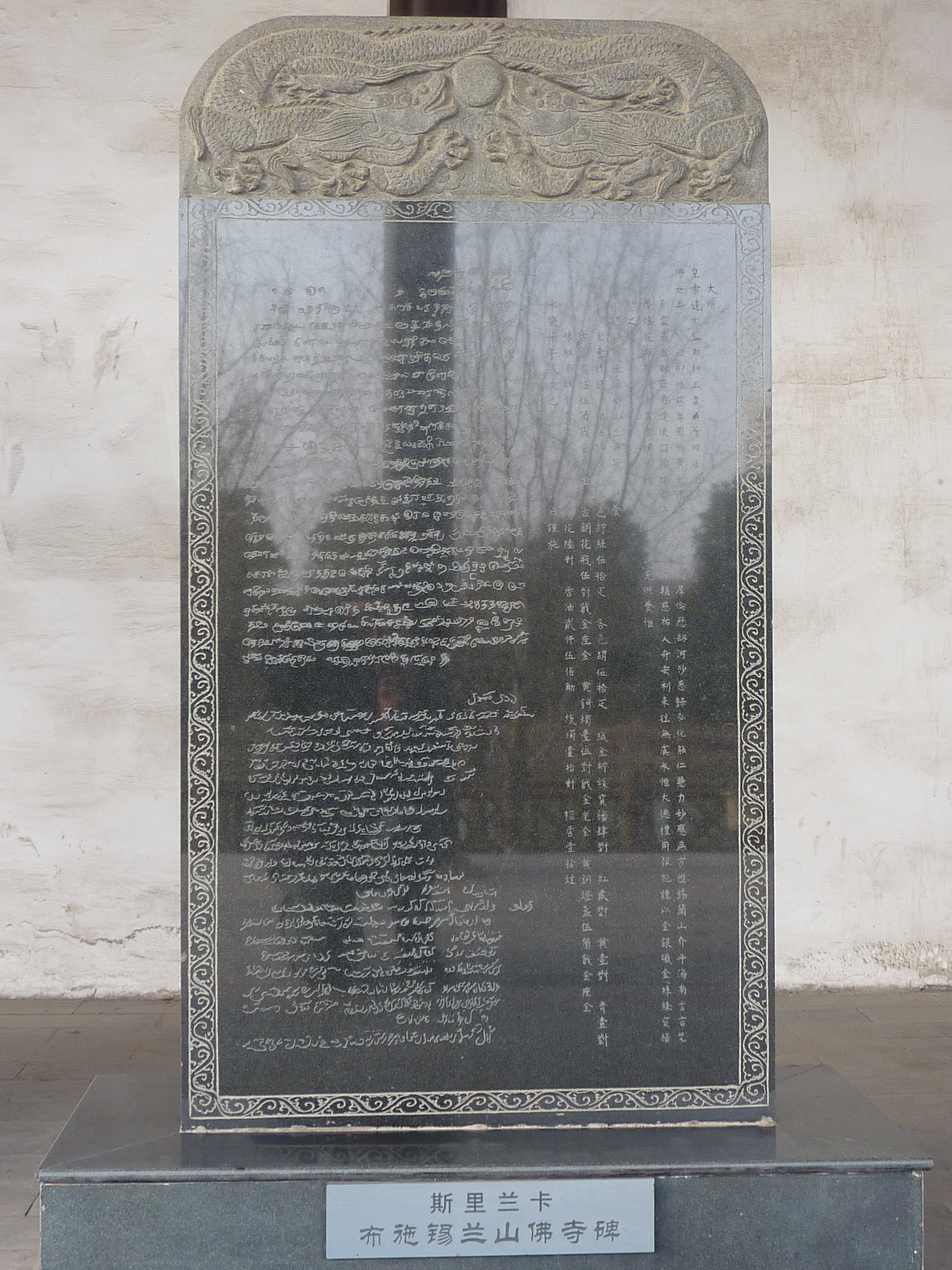 Zheng He's stele from Galle, Sri Lanka. This is a modern replica, seen along with other steles in the Stele Pavilion of the Treasure Boat Shipyard in Nanjing.